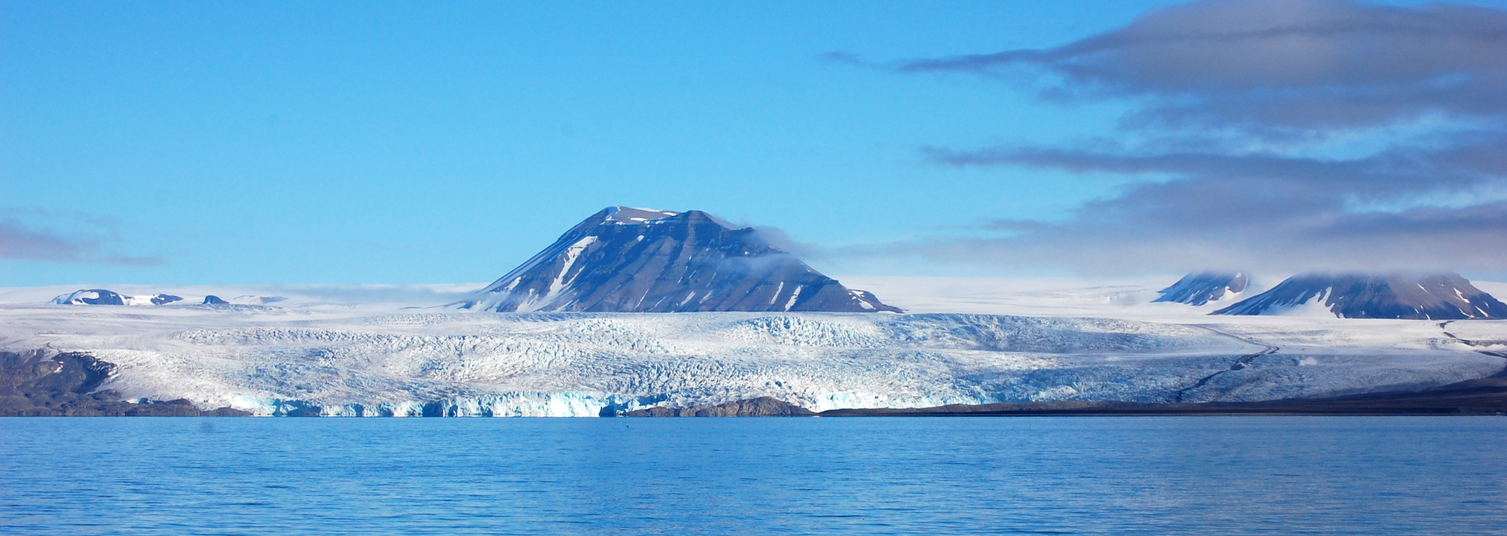 The Nordenskjold on Spitsbergen glacier seen from the Billefjorden.